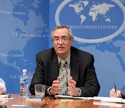 American historian Donald A. Ritchie, delivering a briefing on "Congress in Times of Disruption: A Historical Overview".